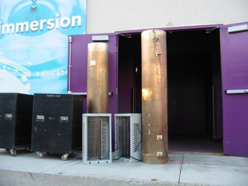 Four dummy loads rest on the loading dock of Expression College for Digital Arts in Emeryville, California, following their use in an amplifier shootout. The two gray rectangular grid resistors are precisely 3.92 ohms each, made by Avtron in Ohio, and can handle 8200w longterm, and 17kw for one minute duration, without external cooling. The two golden-looking six-foot-tall (2 m) cylinders are old silicon wafer ovens which measure 2 ohms ± 5%, made by MRL Industries: the Helix II model. They can handle 200 volt audio signals without any external cooling; they were designed for temperatures of 1300 C°.